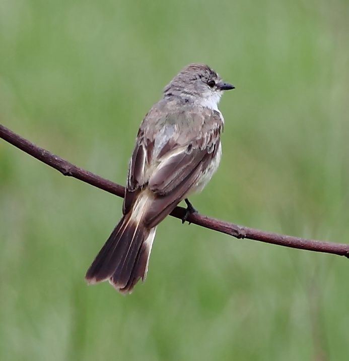 Chapada Flycatcher at Serra da Canastra National Park - MG - Brazil